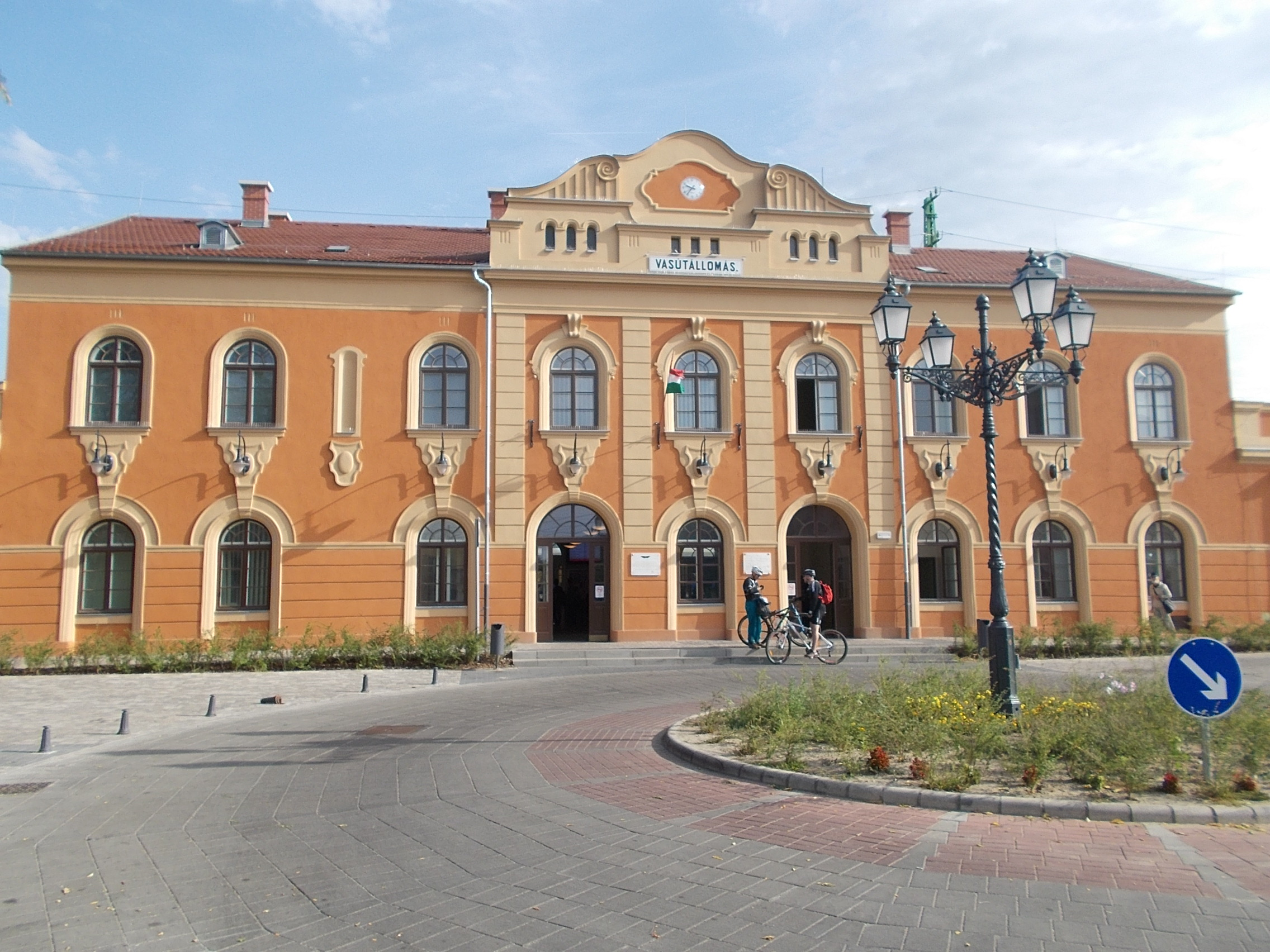 Vác railway station. S.